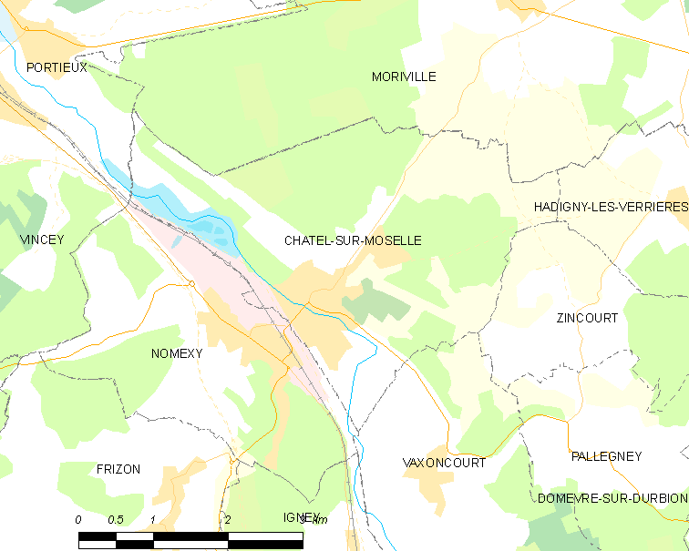 Map of French municipality Châtel-sur-Moselle